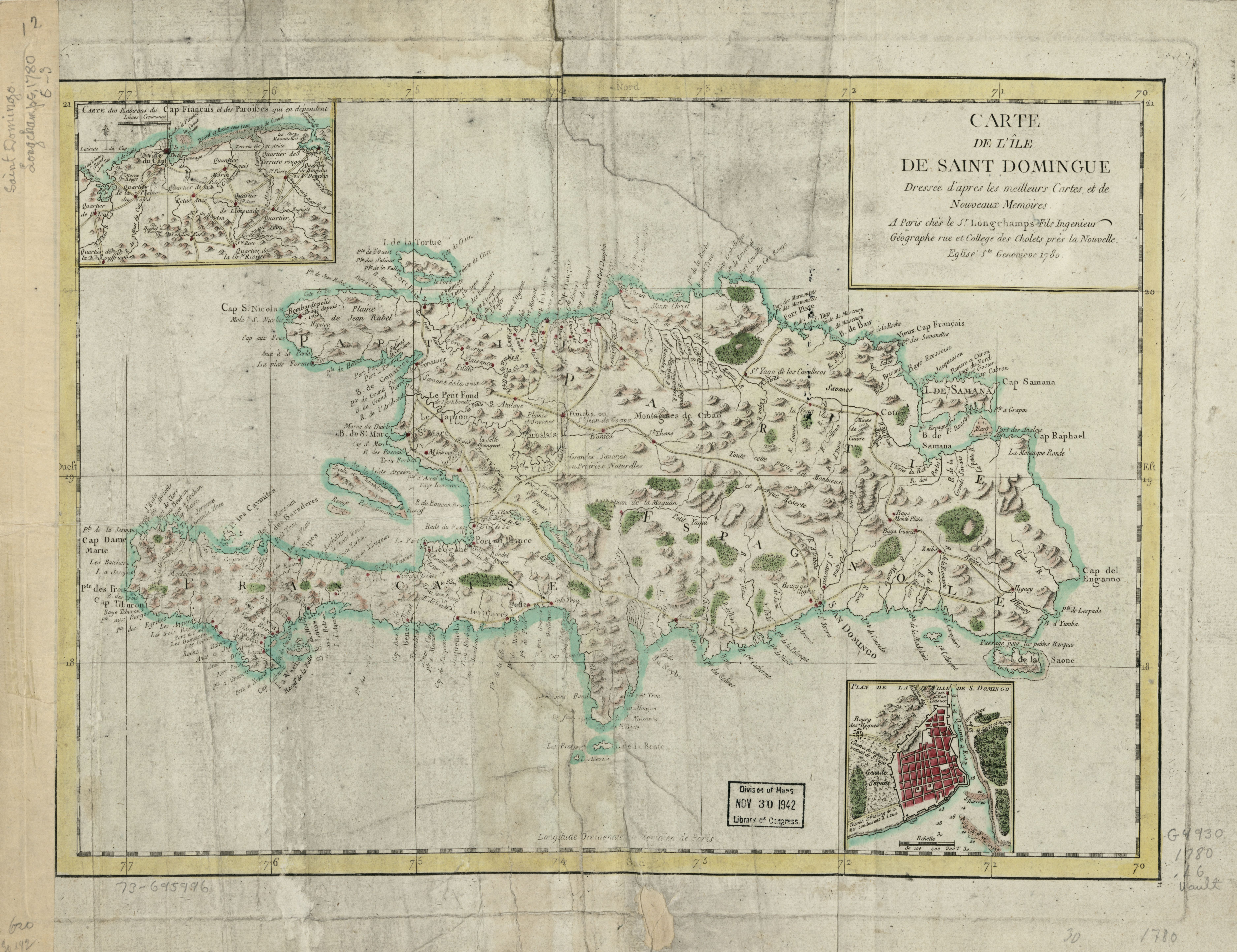 Scale ca. 1:1,550,000. Hand colored. Relief shown pictorially. LC Maps of North America, 1750-1789, 1859 Available also through the Library of Congress Web site as a raster image. "Longitude occidentale du méridien de Paris." Insets: Carte des environs du Cap Français et des paroisses qui en dépendent.--Plan de la ville de S. Domingo. Vault